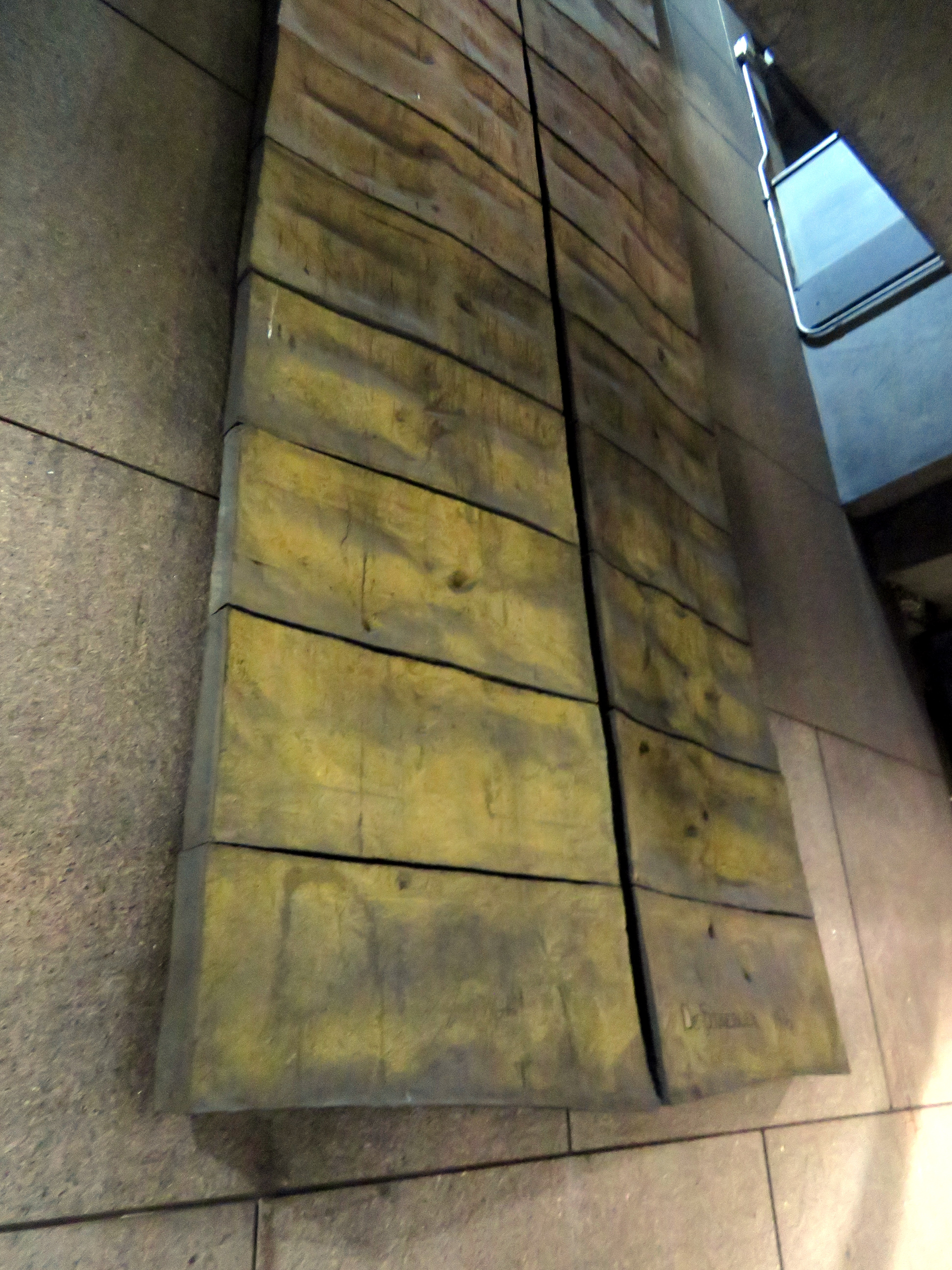 Wall Canyon in Embarcadero station, seen from the BART platform in September 2019